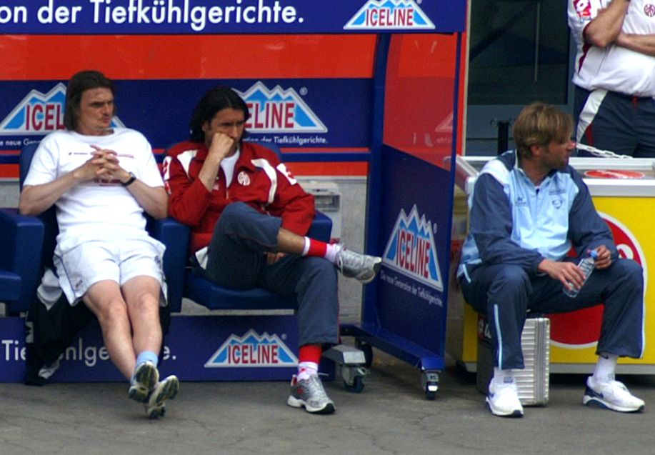 Coaches of FSV Mainz 05: from left to right: Stephan Kuhnert, Zeljko Buvac, Jürgen Klopp